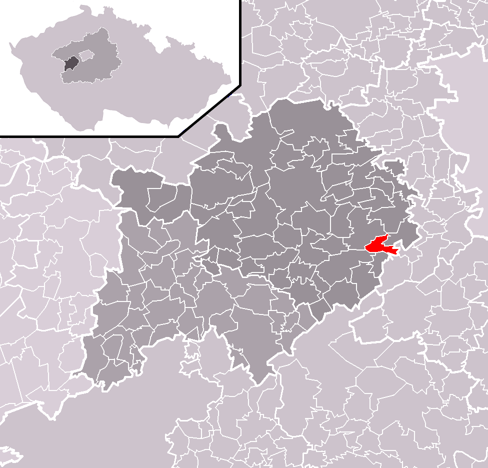 Location of Hlásná Třebaň municipality within Beroun District and administrative area of Beroun as a Municipality with Extended Competence.